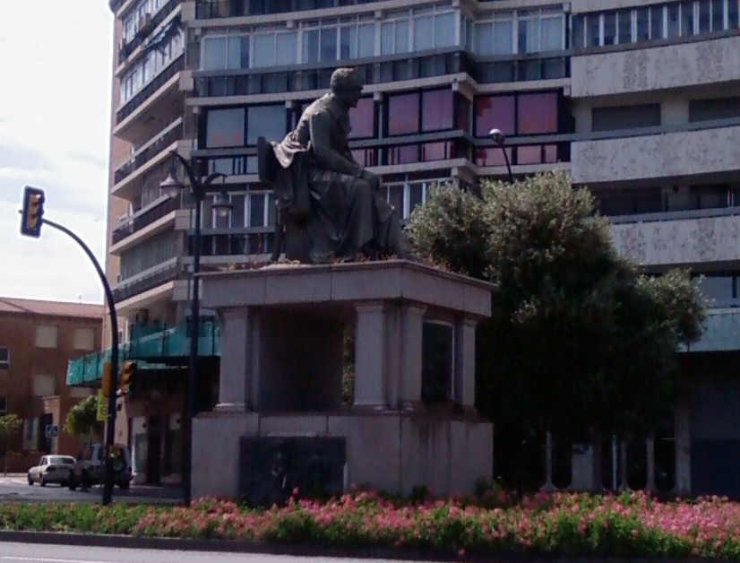 Manuel Agustín Heredia monument. Málaga, Spain